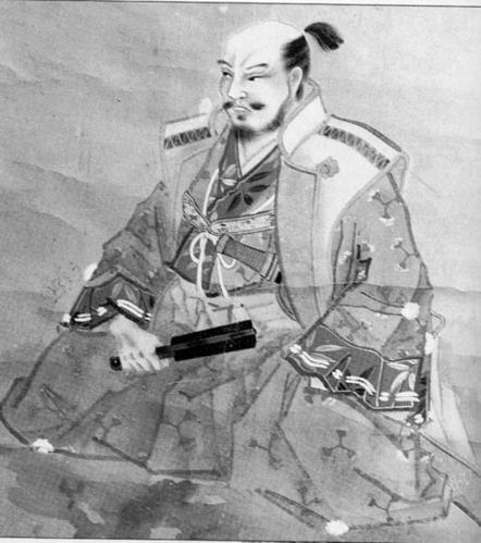 picture of Hara Masatane